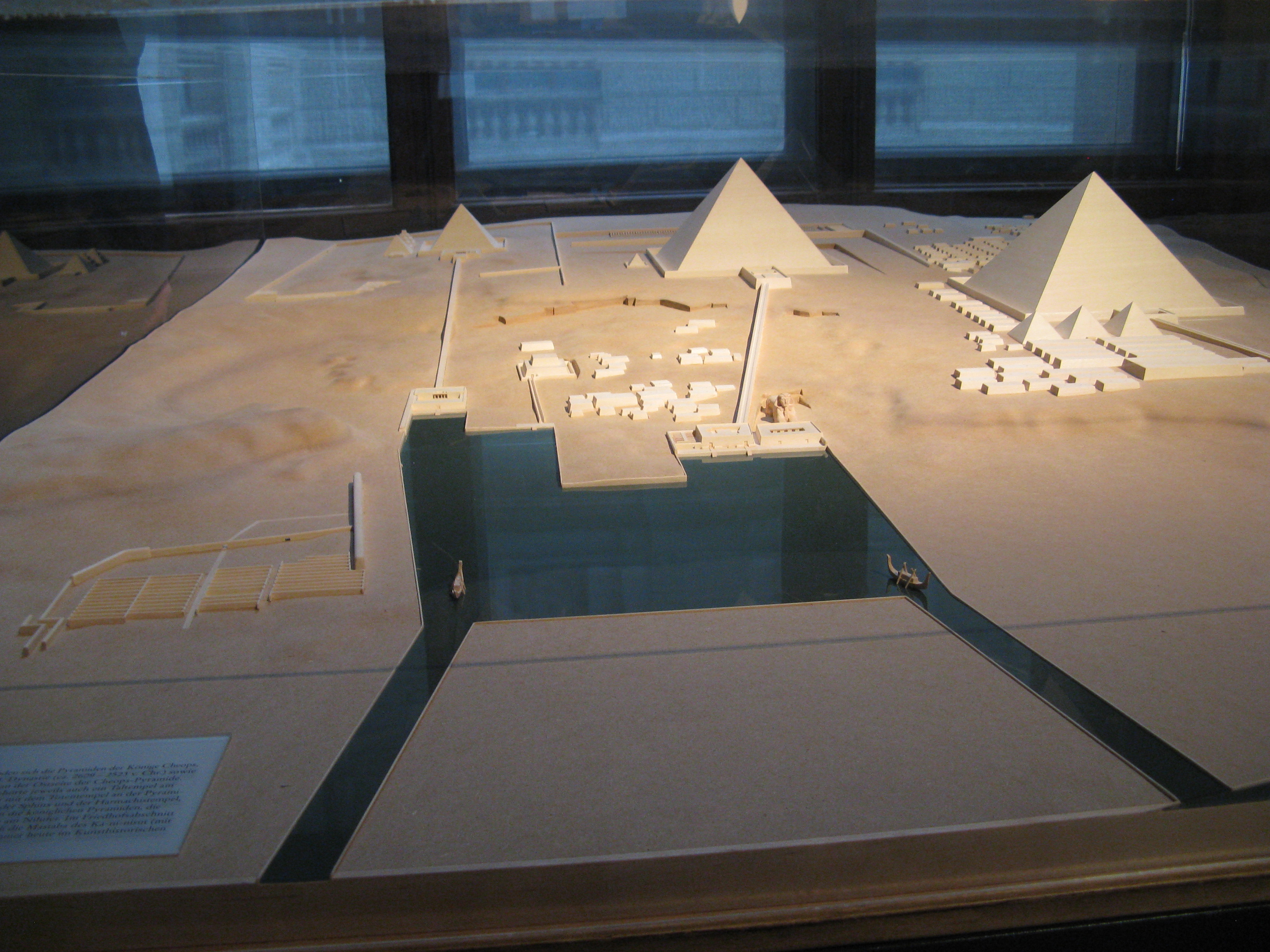 Model of Giza pyramid complex Kunsthistorisches Museum.